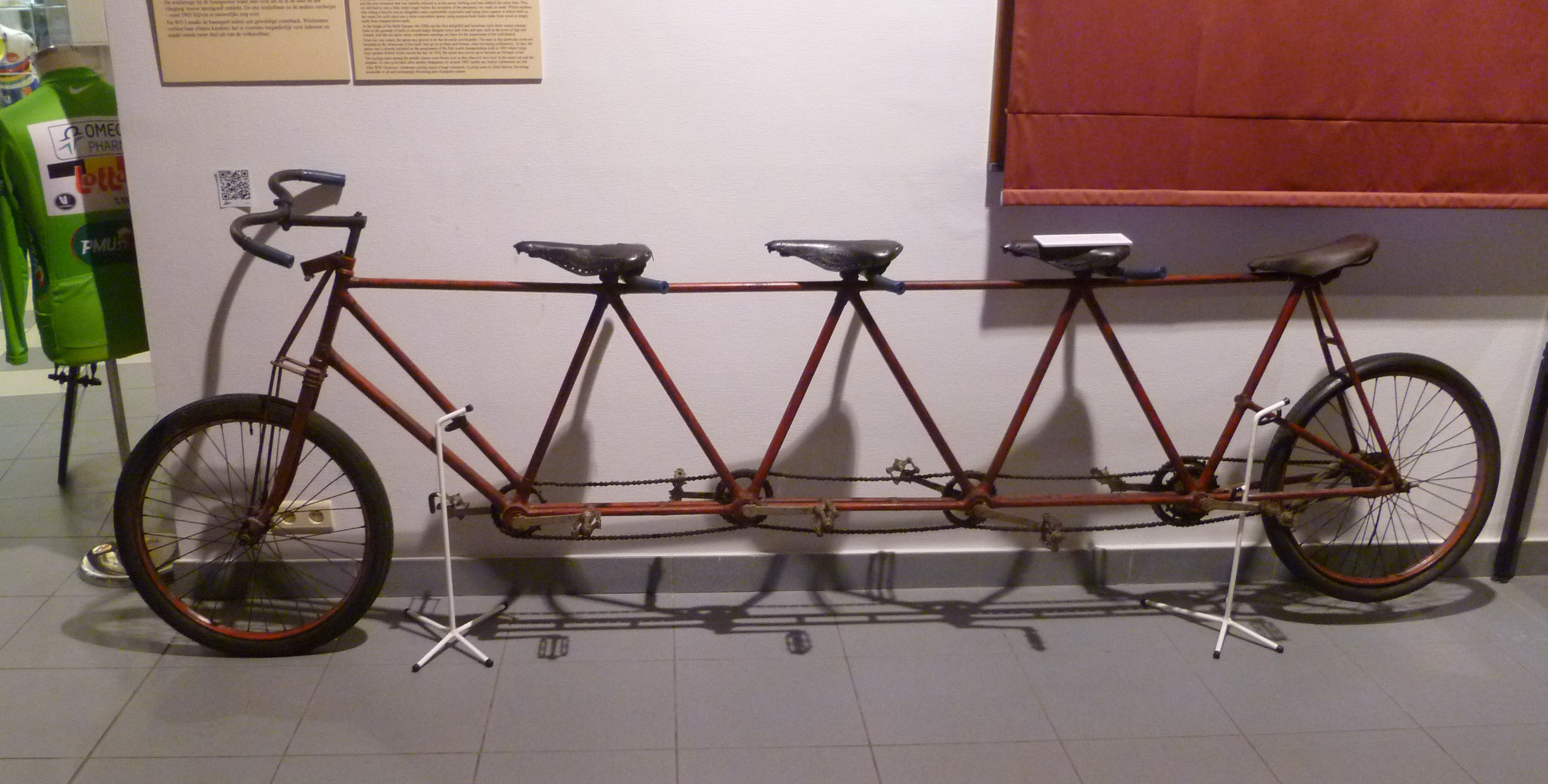 Track cycling (1893) with four cyclists with the first one acting as pacesetter; Nationaal Wielermuseum, Roeselare, Belgium